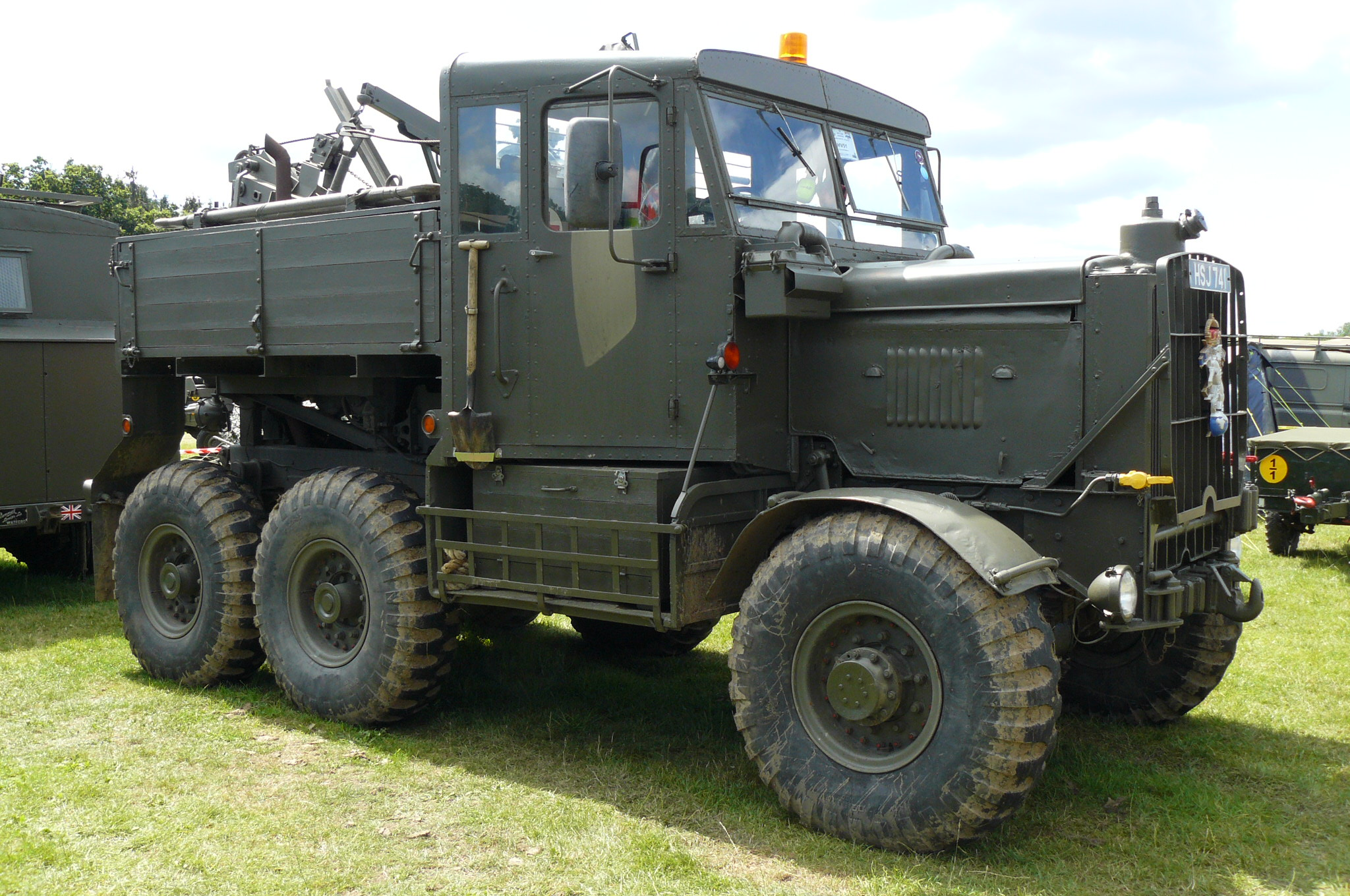 Scammell Explorer as seen on War & Peace show 2011, UK